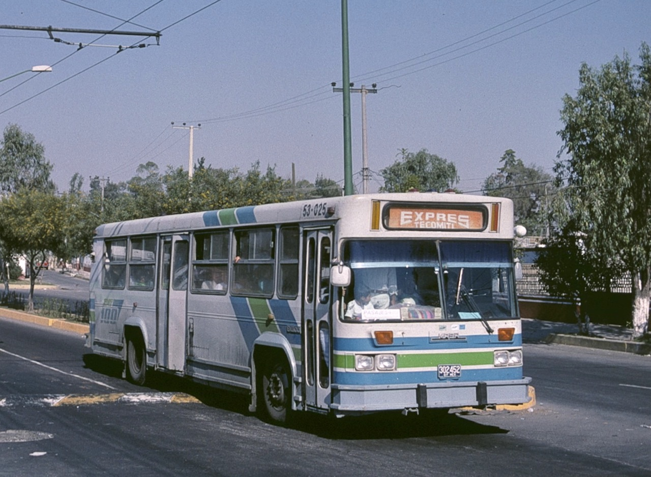 A bus built by MASA, in service for Mexico City's Ruta 100 company, pictured on Calle Juan Palomo Martínez in Tláhuac, Mexico, in 1995.